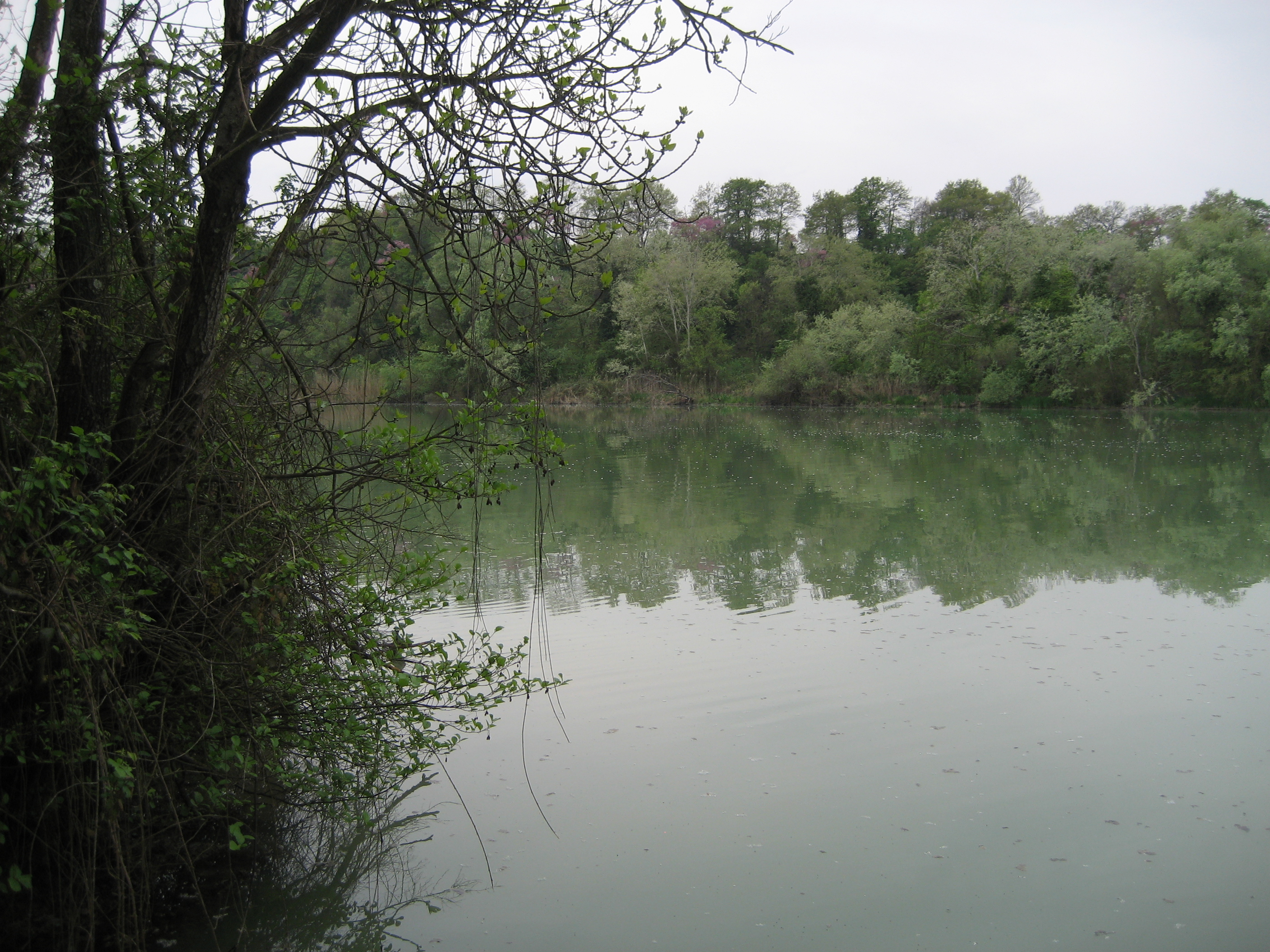 Tiber river in regional nature reserve of Nazzano Tevere-Farfa, downstream of Torrita Tiberina